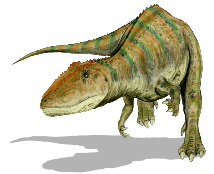 Life restoration of Carcharodontosaurus saharicus, a theropod from the Early Cretaceous of Africa, pencil drawing